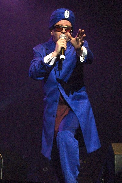 "Jihad Jerry" performing with Devo , San Francisco 2006 Depicted person: Jihad Jerry & the Evildoers